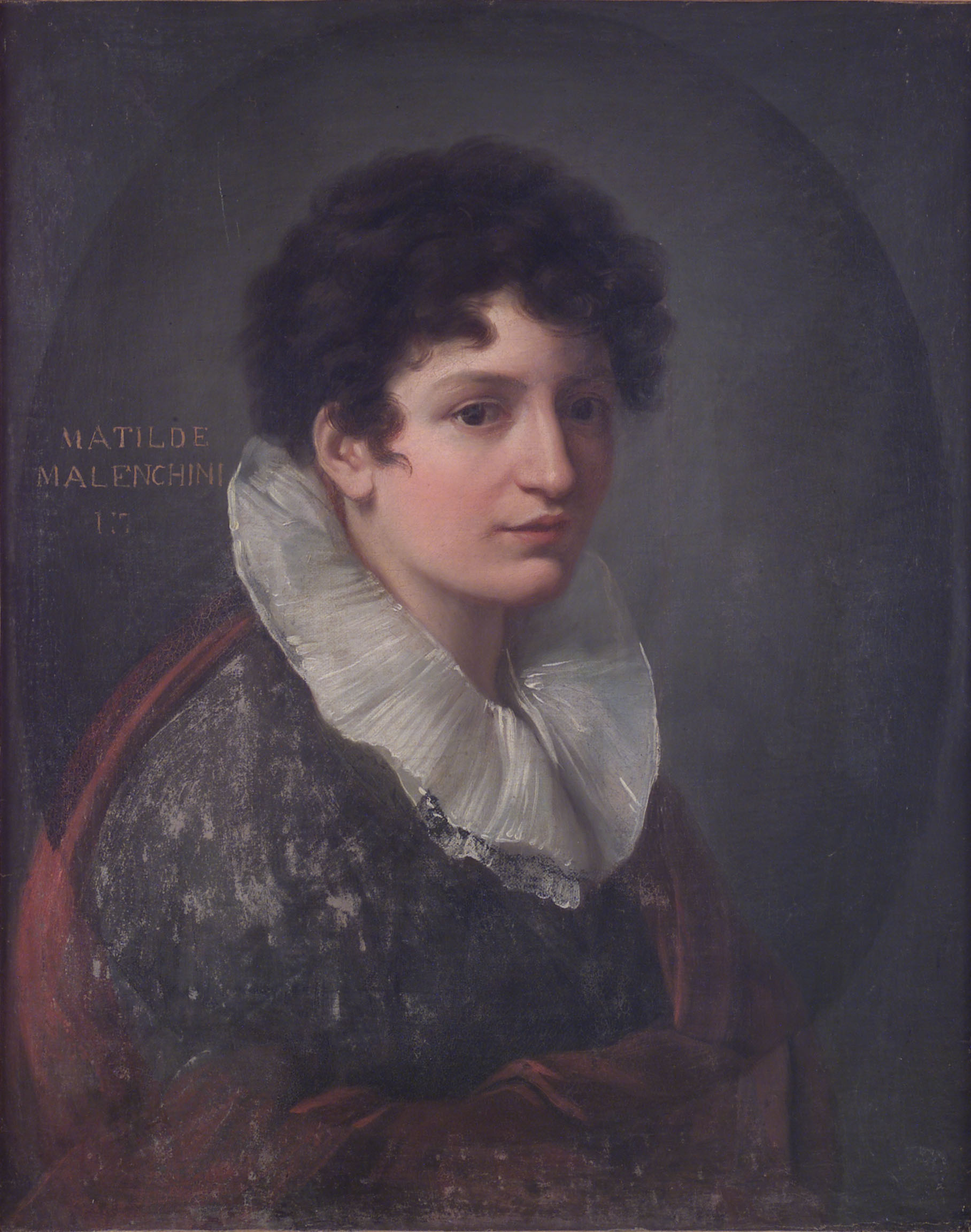 Italian artist Matilde Malenchini